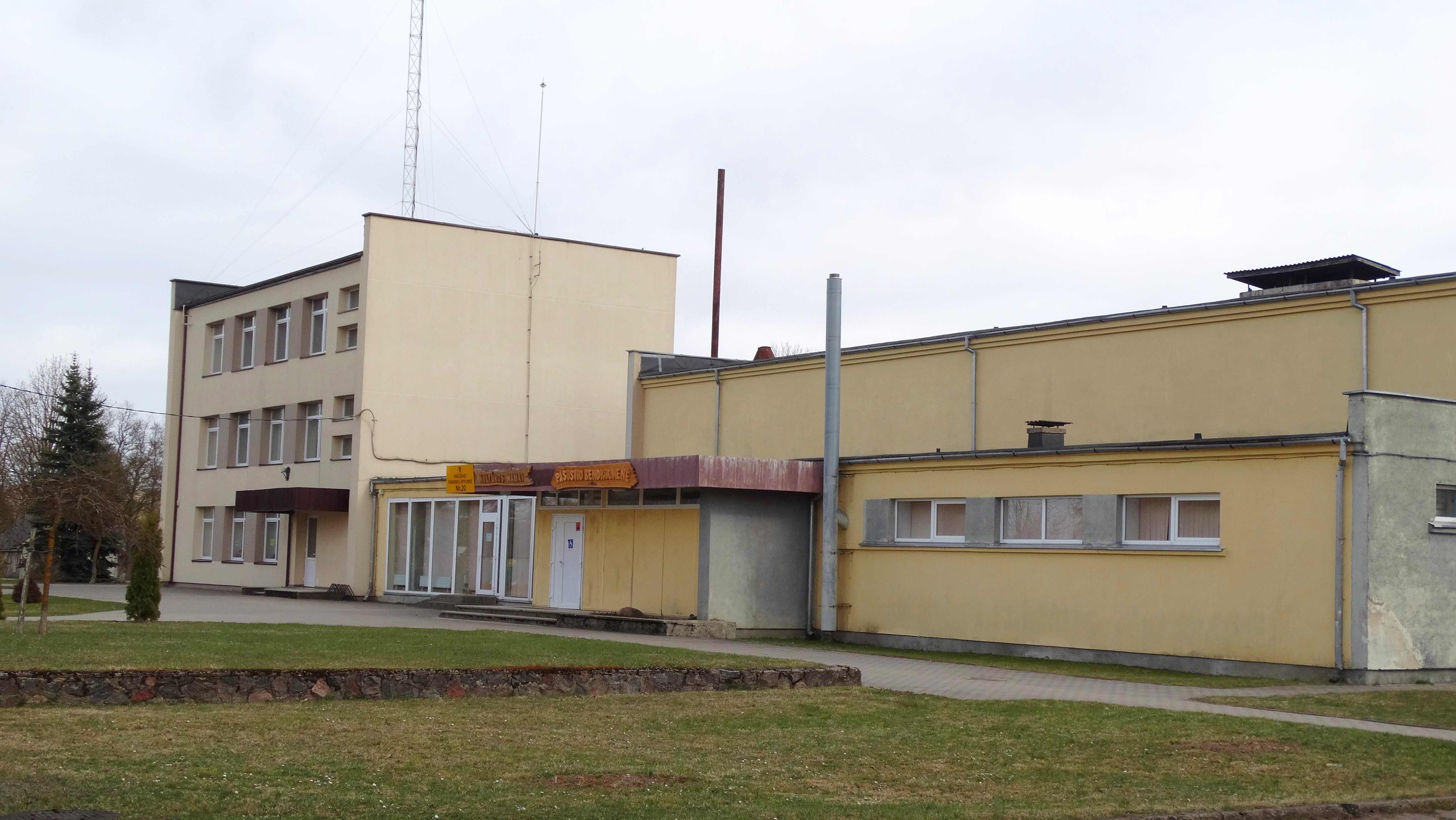 Pašušvys, Radviliškis District, Lithuania